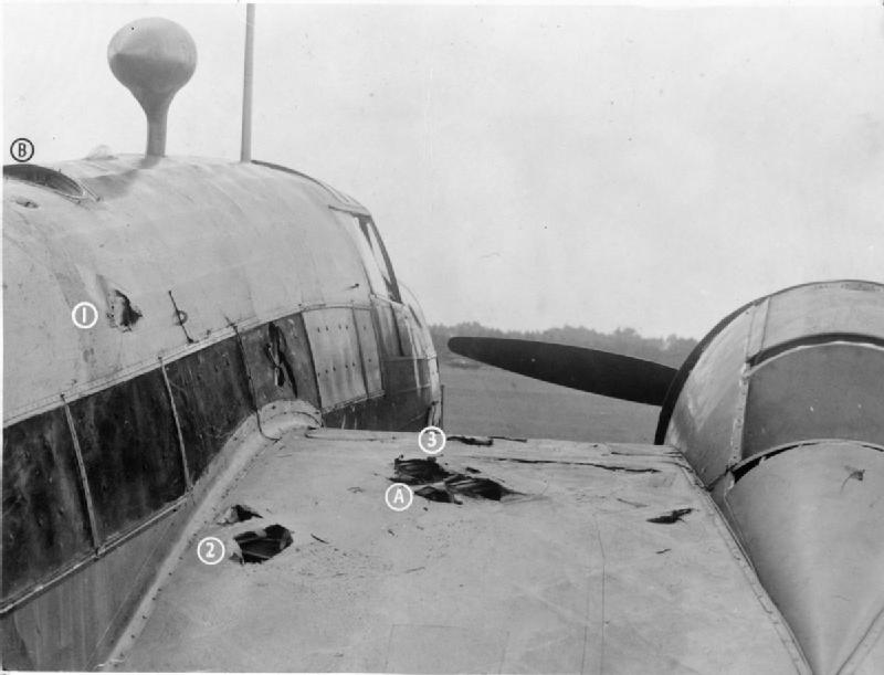 Royal Air Force Bomber Command, 1939-1941. Close-up of the damage caused to Vickers Wellington Mark IC, L7818 'AA-V', of No. 75 (New Zealand) Squadron RAF, at Feltwell, Norfolk, after returning from an attack on Munster, Germany, on the night of 7/8 July 1941. While over the Zuider Zee, cannon shells from an attacking Messerschmitt Me 110 struck the starboard wing (A), causing a fire from a fractured fuel line which threatened to to spread to the whole wing. Efforts by the crew to douse the flames failed, and Sergeant James Allen Ward, the second pilot, volunteered to tackle the fire by climbing out onto the wing via the astro-hatch (B). With a dinghy-rope tied around his waist, he made hand and foot-holds in the fuselage and wings (1, 2 and 3) and moved out across the wing from where he was eventually able to extinguish the burning wing-fabric. His courageous actions earned him the Victoria Cross. He was shot down and killed while bombing Hamburg on the night of 15/16 September 1941, in another Wellington of the Squadron.